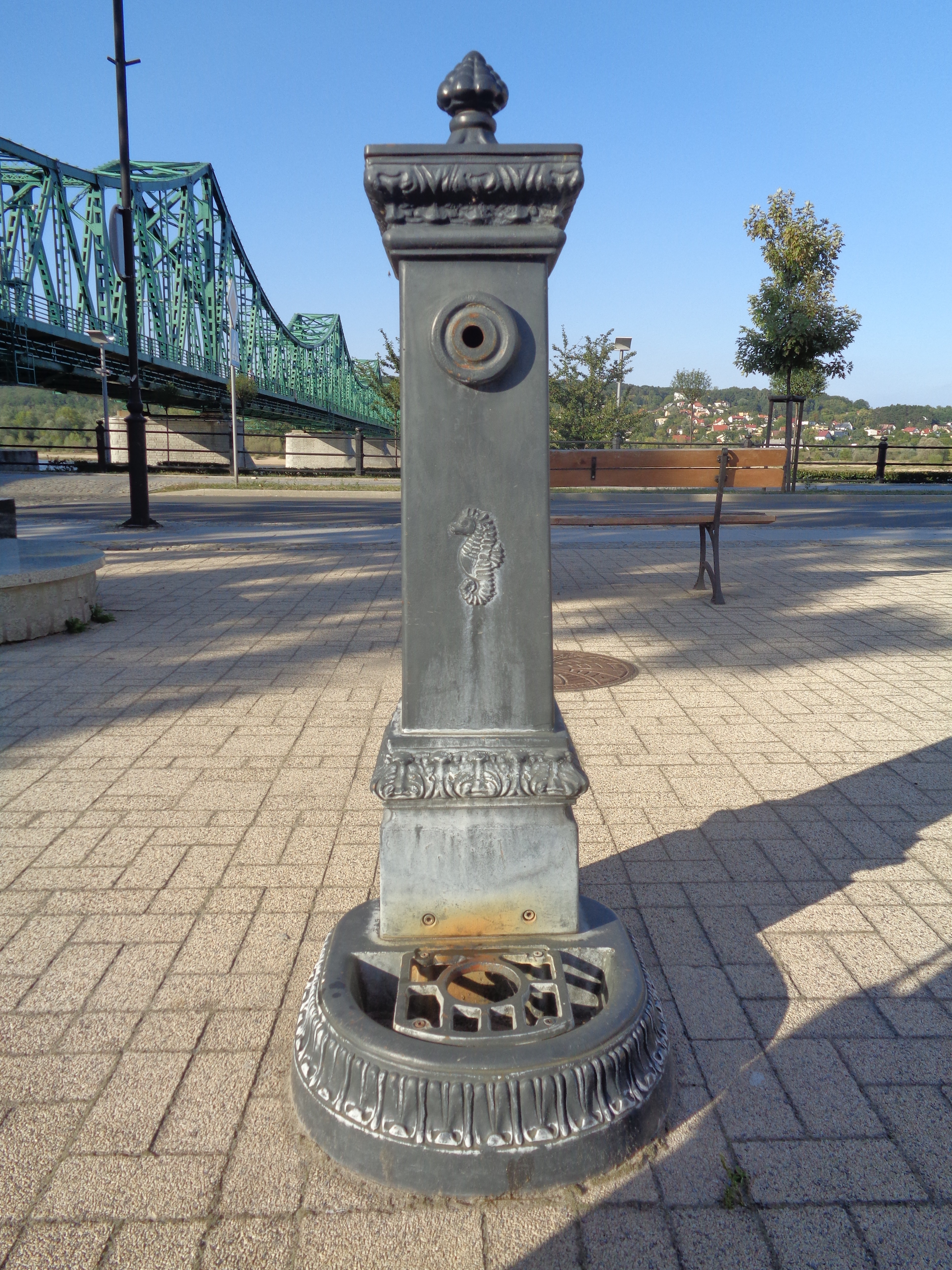 Decorative street water hose at Piłsudski Boulevard in Włocławek.